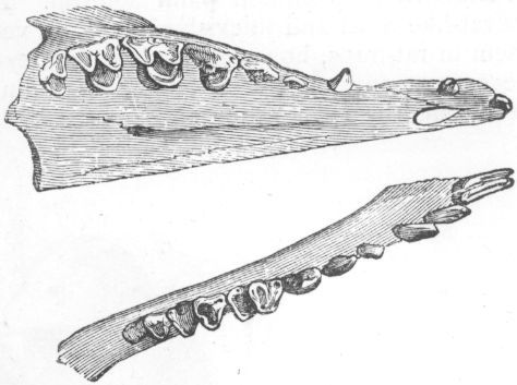 Dentition of Tupaia (Anathana)